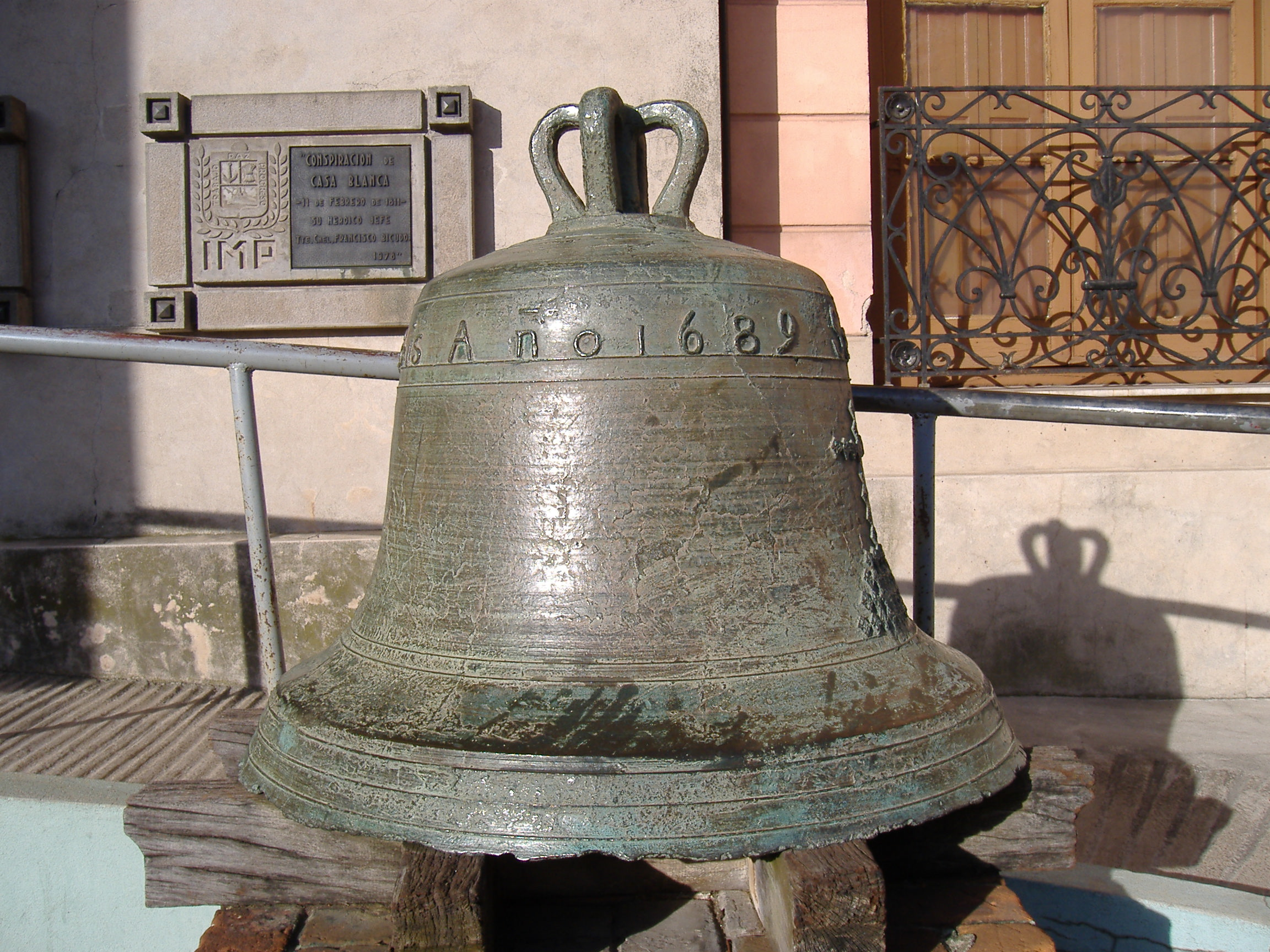 A bronze bell dated 1689 at the entrance of the cathedral of Paysandú, Uruguay.